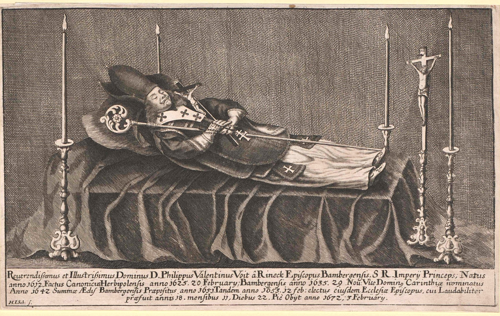 Philipp Valentin Voit von Rieneck (1612-1672), Fürstbischof von Bamberg, auf dem Sterbebett